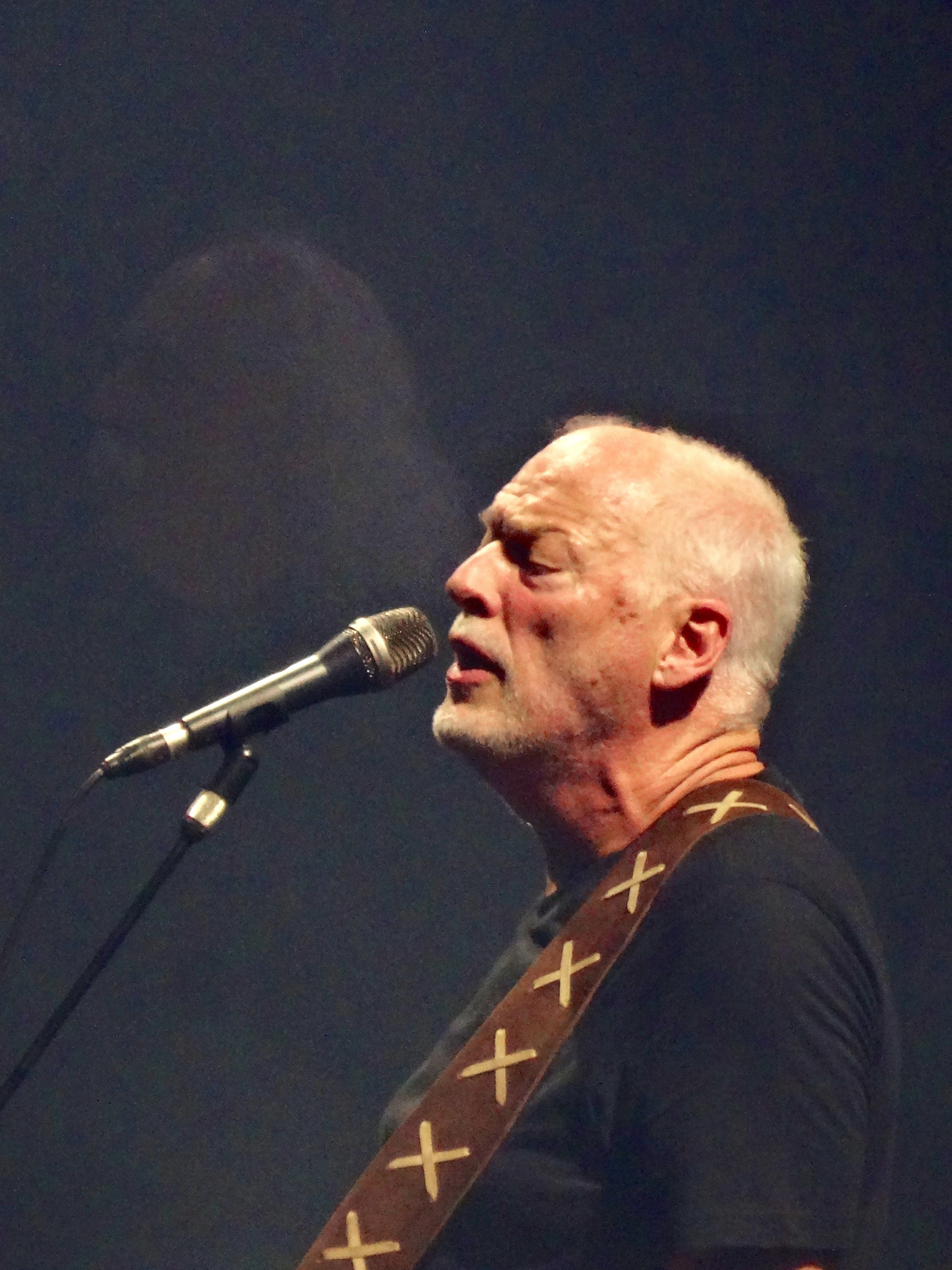 David Gilmour during Rattle That Lock Tour